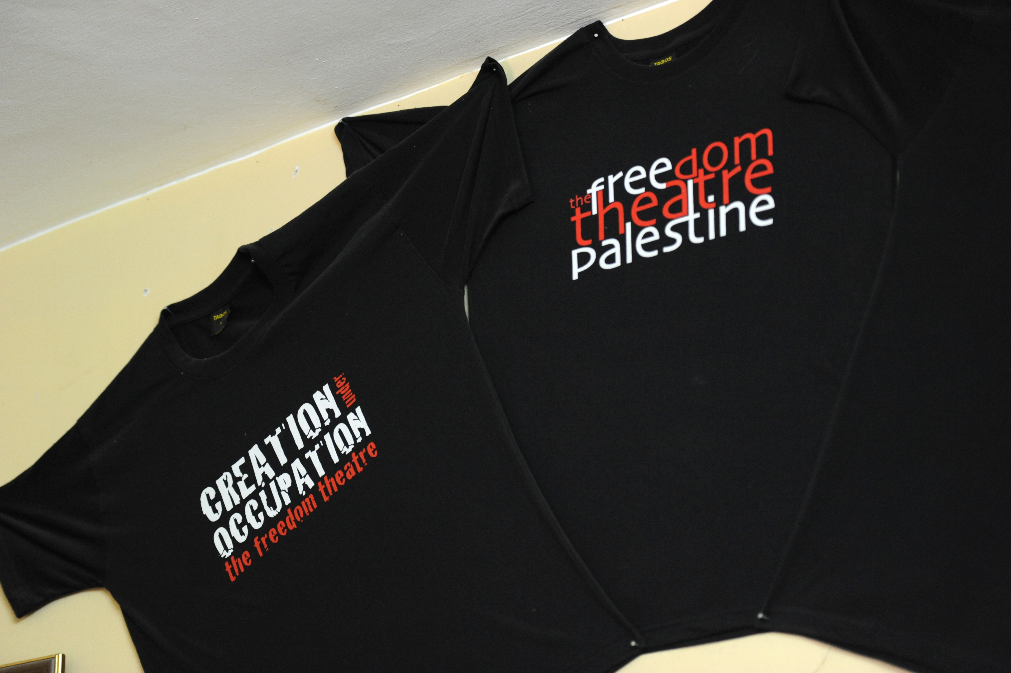 T-shirts for sale in the Freedom Theatre in Jenin, West Bank